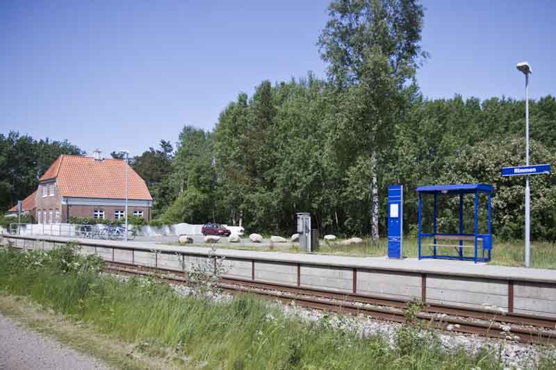 Rimmen way station, situated app. 9 km northwest of the danish city Frederikshavn, june 2009